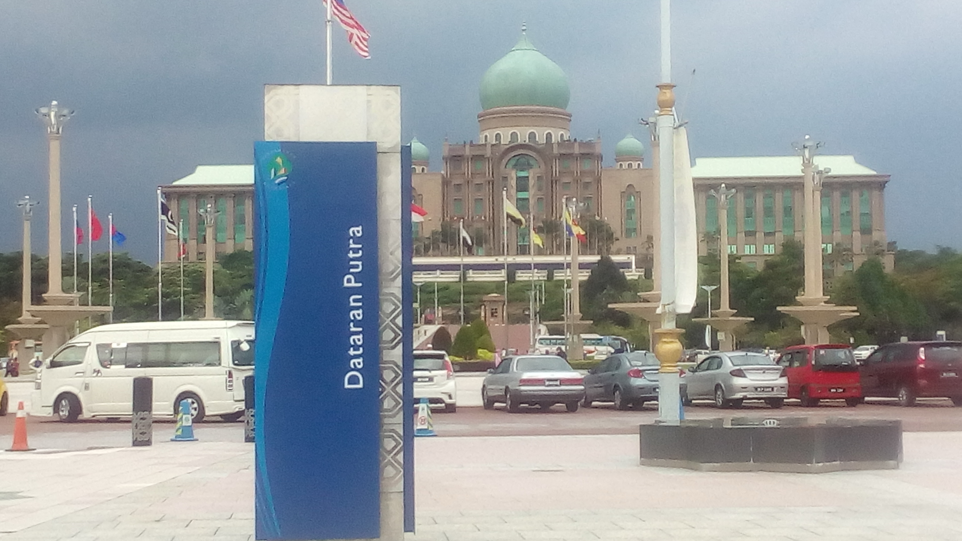 Dataran Putra Signboard